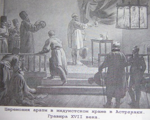 Painting of a hindu preist performing Hindu arati ceremony in the Russian town of Astrahan. 18c.